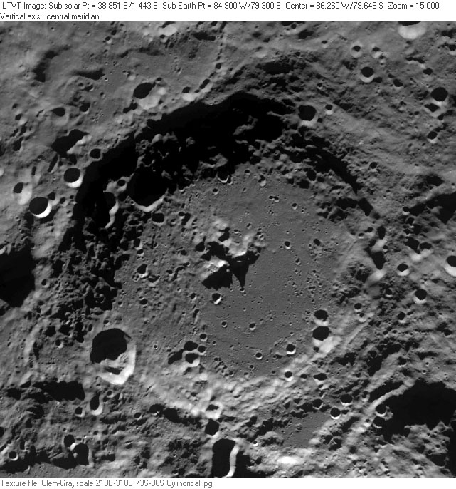 Crater Drygalski. Clementine 750 nm Greyscale mosaic texture from Map-a-Planet (150 pixels per degree) remapped to a north-up aerial view by LTVT.